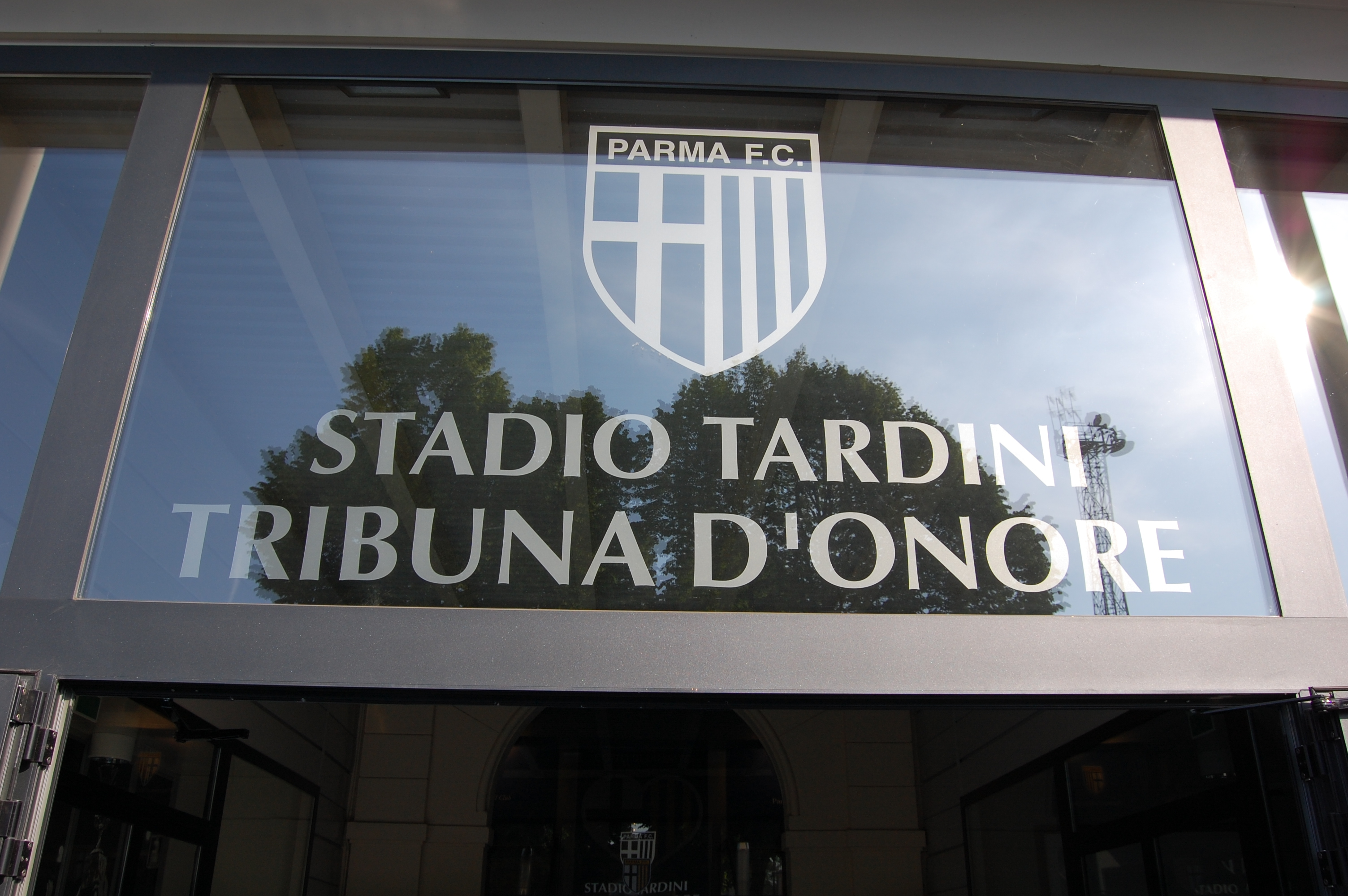 Stadio Ennio Tardini